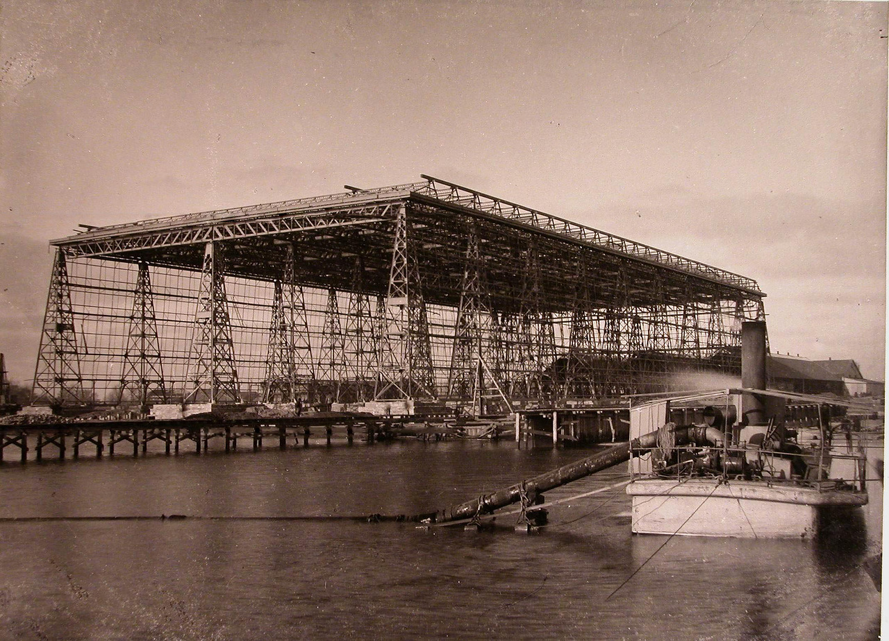 Nikolayev Shipbuilding, Mechanical, and Iron Works––a Belgian-owned enterprise.